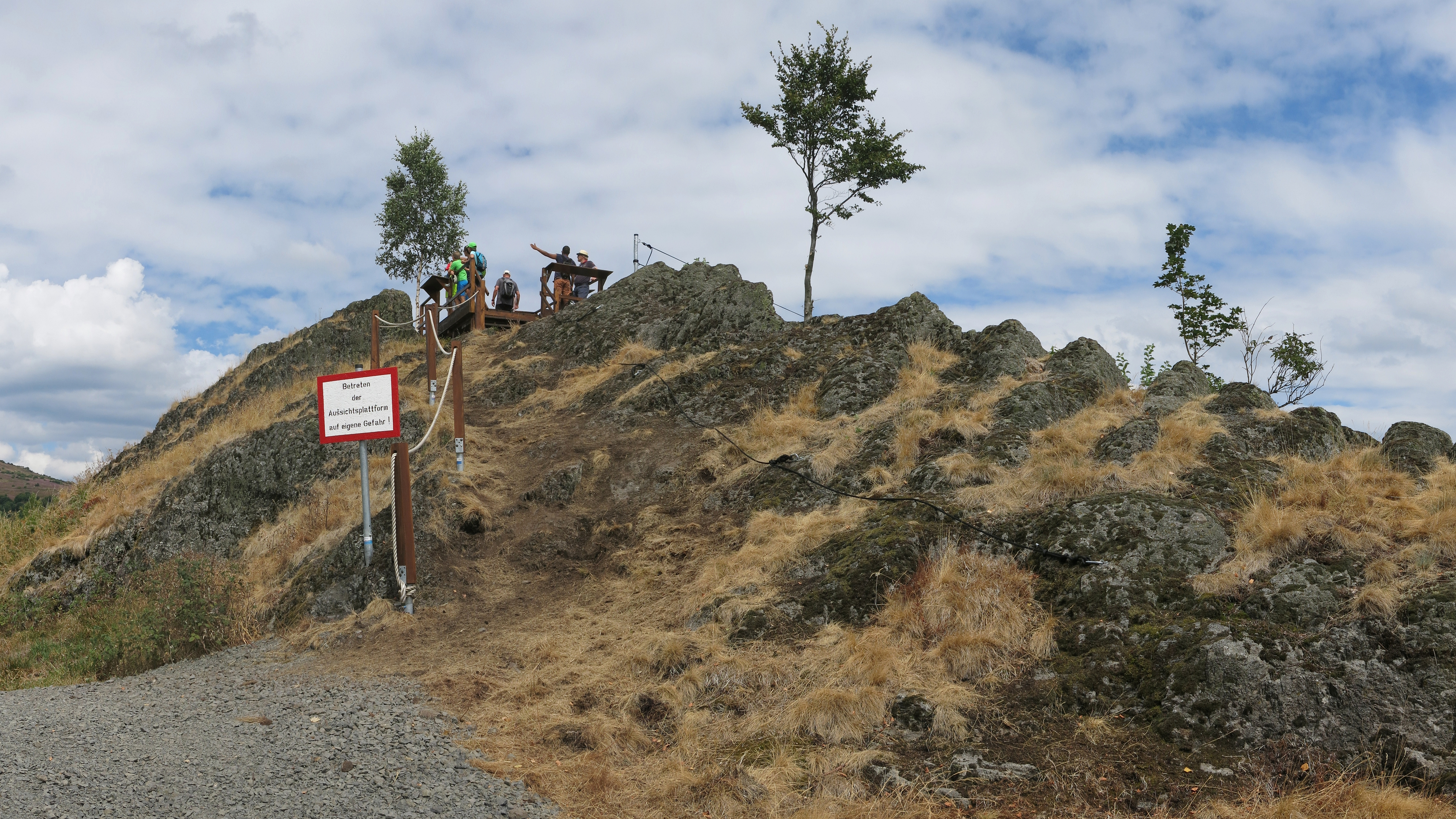 Summit of the Steinküppel on the area of the military training area near Wildflecken in the Rhön Mountains, seen from east during open days.